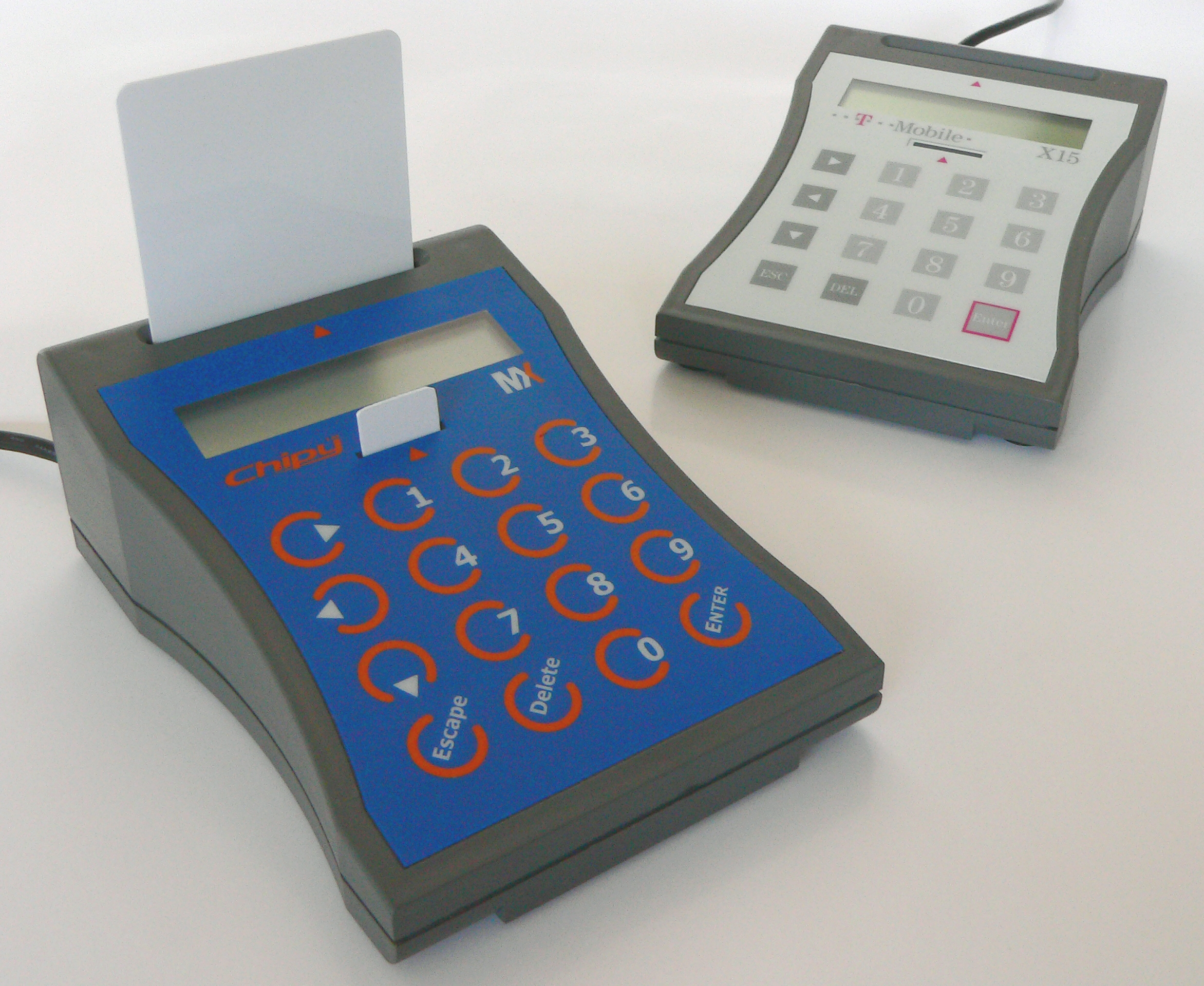 chipcard reader